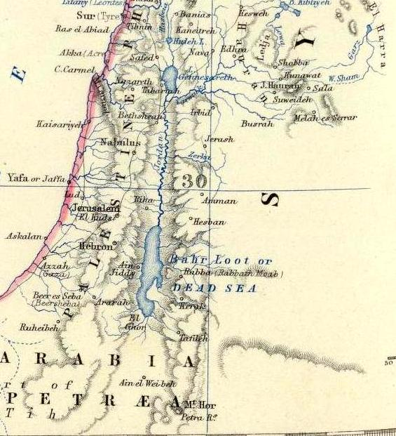 Turkey in Asia, Asia Minor, and Transcaucasia. By Keith Johnston, F.R.S.E. Engraved & printed by W. & A.K. Johnston, Edinburgh. William Blackwood & Sons, Edinburgh & London, (1861)